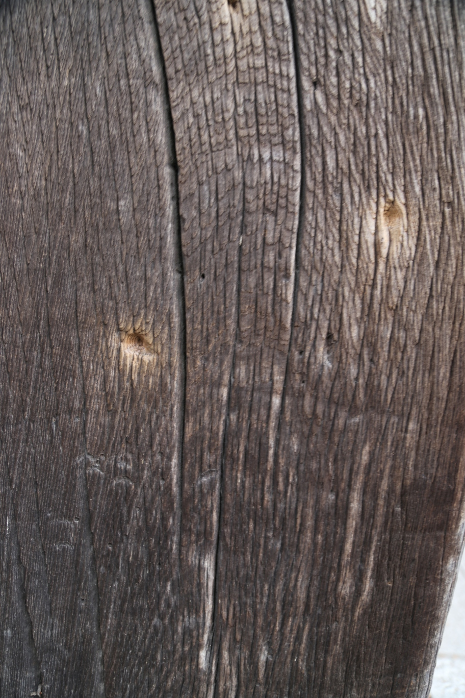 Bullet marks, Hamaguri gomon, Kyoto Gyoen.